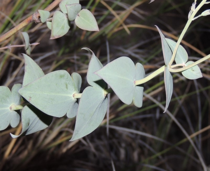 Veronica perfoliata in the Rob Roy Nature Range Nature Reserve in the Australian Capital Territory